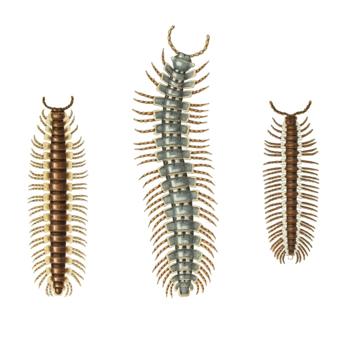 Illustrations of millipedes in the family Platyrhacidae. Left: Platyrhachus laticollis, nat. size ♀. Center: Platyrhachus mirandus , nat. size ♂ . Right: Platyrhachus weberi, nat. size ♂.